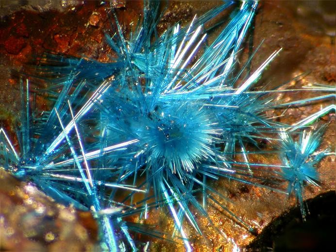 Connellite Locality: Ingadanais Mines, Vila Velha de Rodão, Castelo Branco District, Portugal Field of view 7 mm. Depth of field is achieved with CombineZM. Specimen and photo Leon Hupperichs. This Photo was Photo of the Day - 14th May 2007